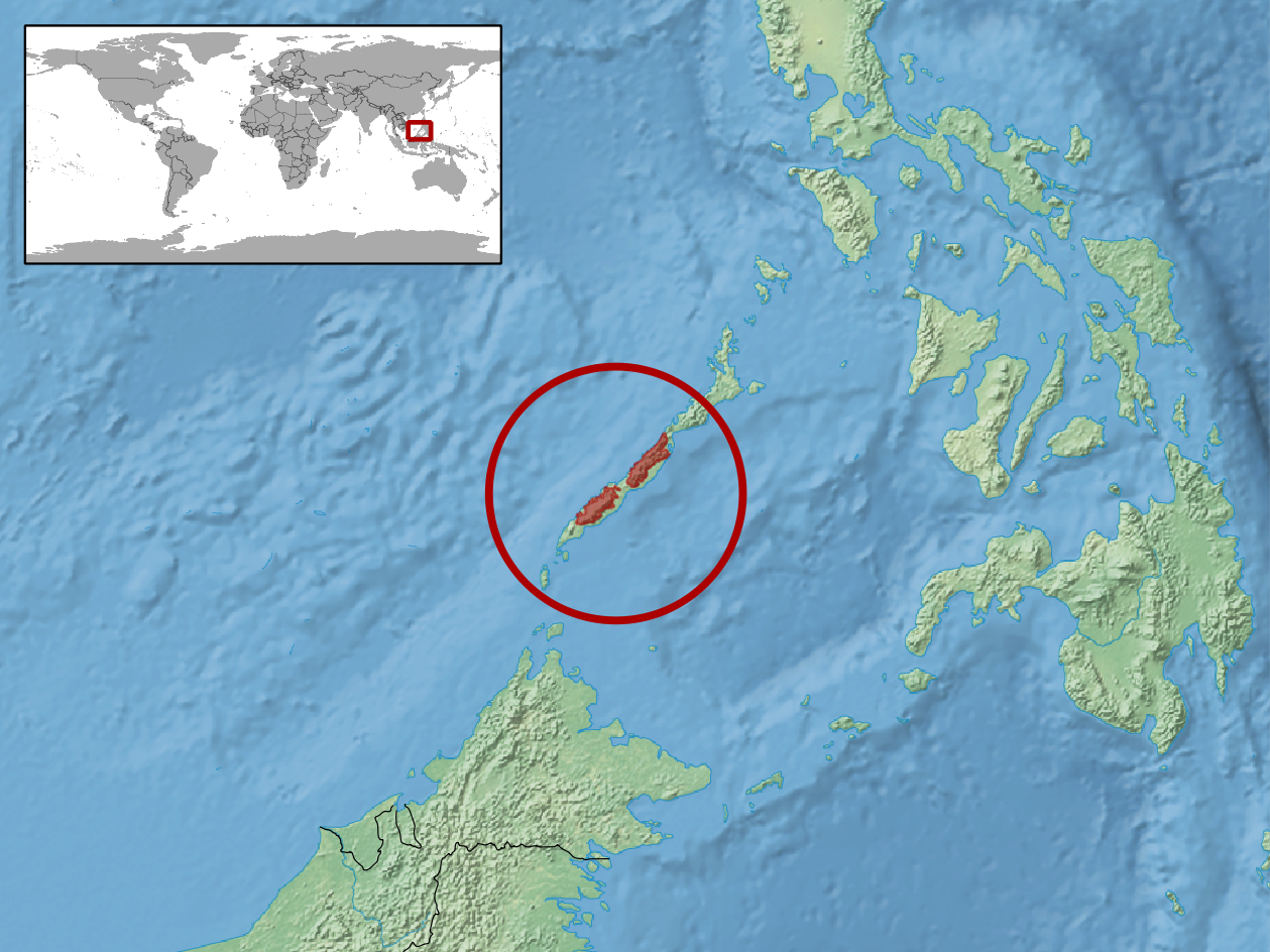 geographic distribution of Gekko athymus (Native: Philippines)